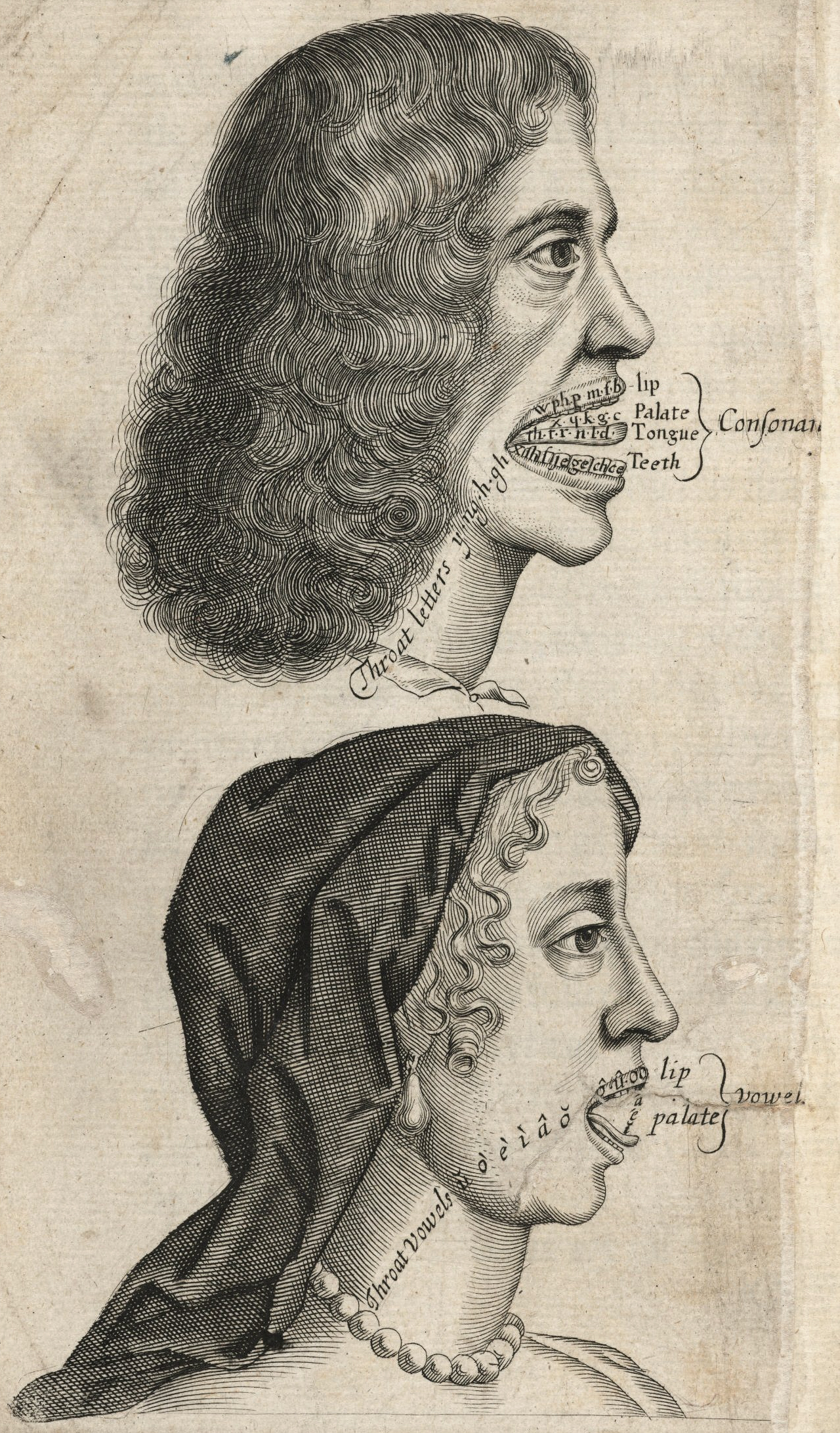 Illustration from The Vocal Organ, or A new art of teaching the English orthographie, by observing the instruments of pronunciation, and the difference between words of like sound, whereby any outlandish, or meer English man, woman, or child, may speedily attain to the exact spelling, reading, writing, or pronouncing of any word in the English tongue, without the advantage of its fountains, the Greek, and Latine, 1665, by Owen Price (died 1671). *EC65.P93165.665v, Houghton Library, Harvard University